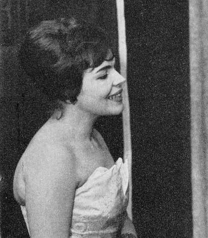 Photograph of the Finnish opera vocalist Raili Kostia (1930–1990).